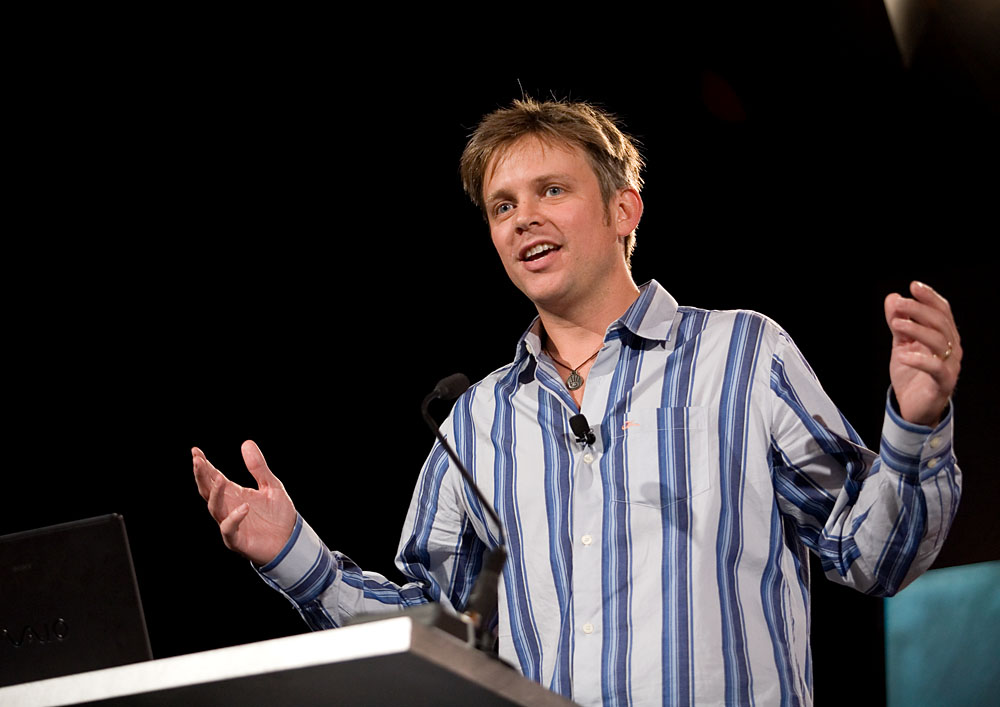 Philip Rosedale at the Web 2.0 Summit, originally known as Web 2.0 Conference, 5 October 2005.